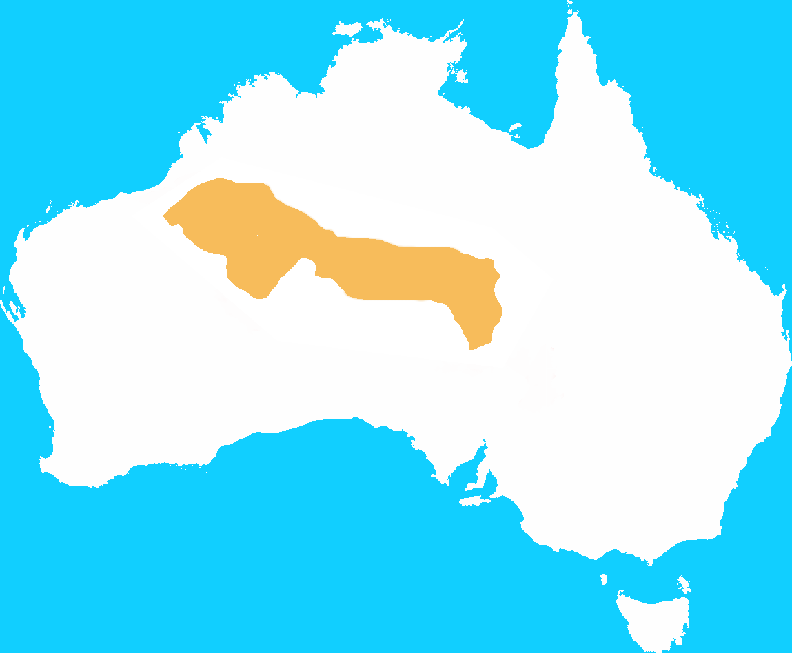 An updated version of my previous Lesser Bilby Distribution map. It depicts the approximate historic distribution of the now extinct Lesser Bilby (Macrotis leucura)